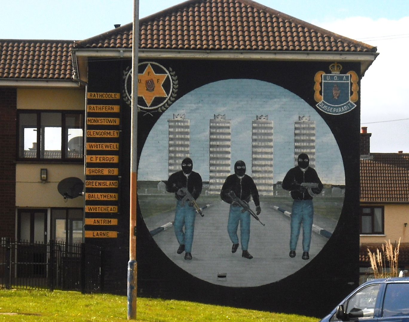 Mural in support of the South East Antrim Brigade of the Ulster Defence Association/Ulster Freedom Fighters, Bencrom Park, Rathcoole estate, Newtownabbey